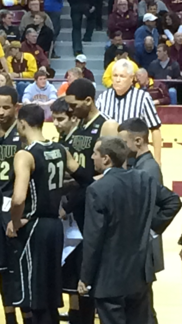 A. J. Hammons during a 2/7/2015 game at Minnesota